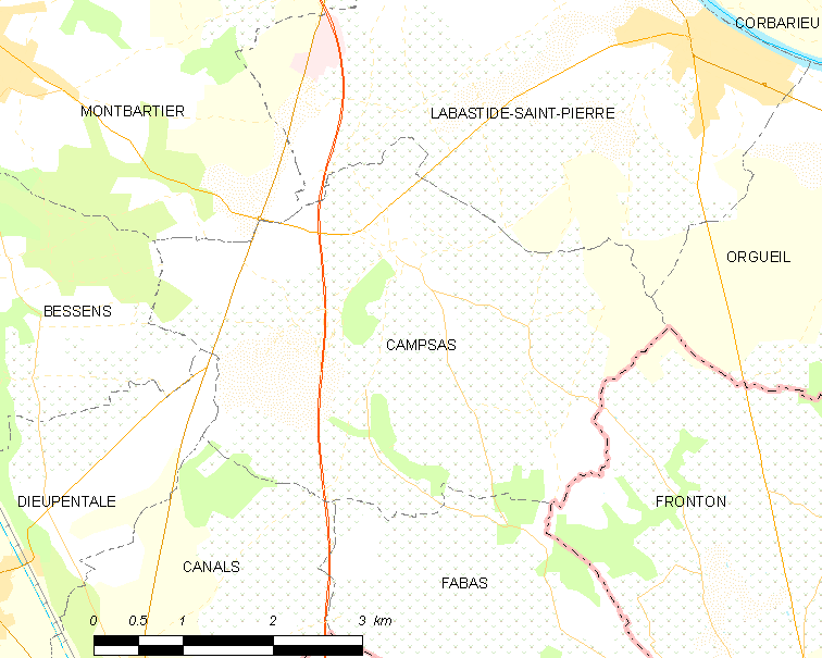 Map of French municipality Campsas